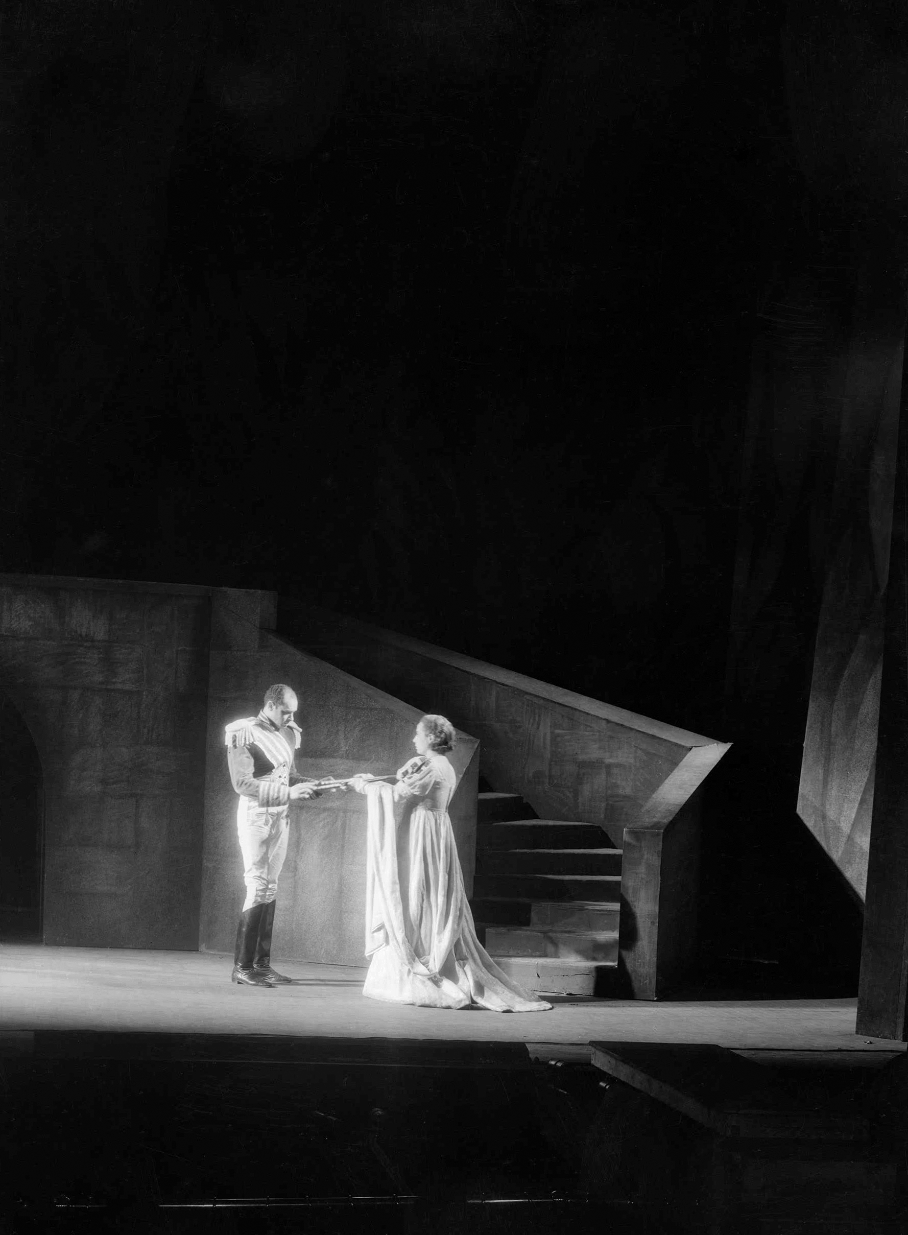 Photograph of Jack Carter and Edna Thomas as Macbeth and Lady Macbeth in the Federal Theatre Project production of Macbeth at the Lafayette Theatre, Harlem